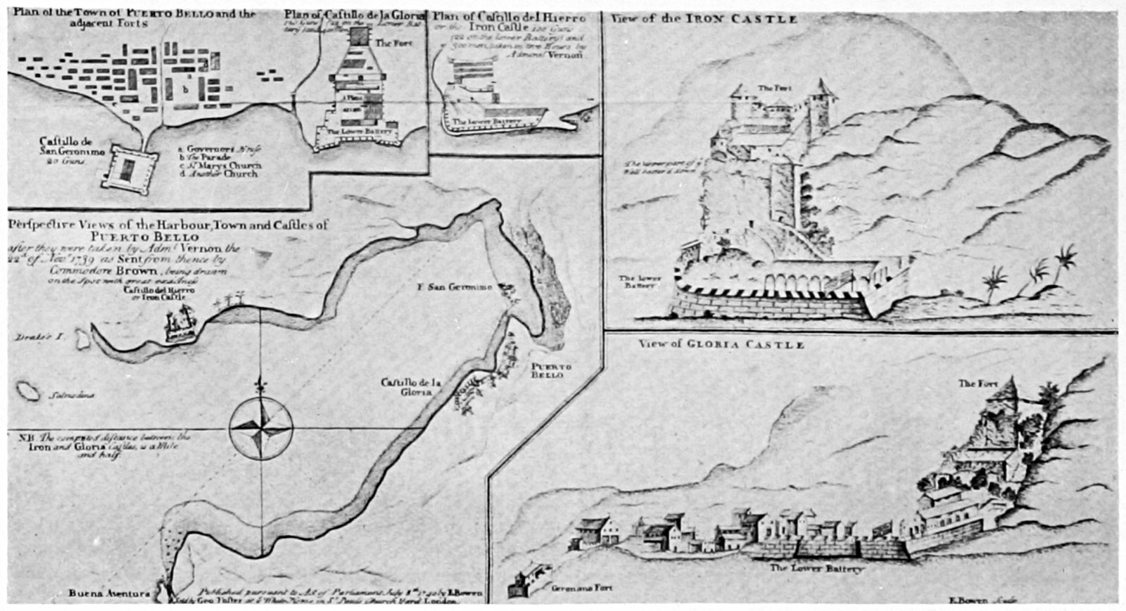 Map of PORTO BELLO, CIRCA 1740, SHOWING THE SITUATION AND DEFENCES OF THE CITY